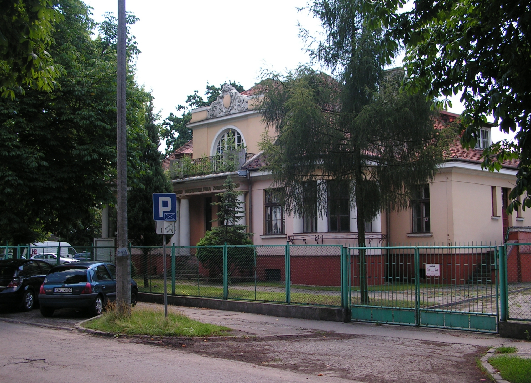 Grodzki's Villa in Włocławek.